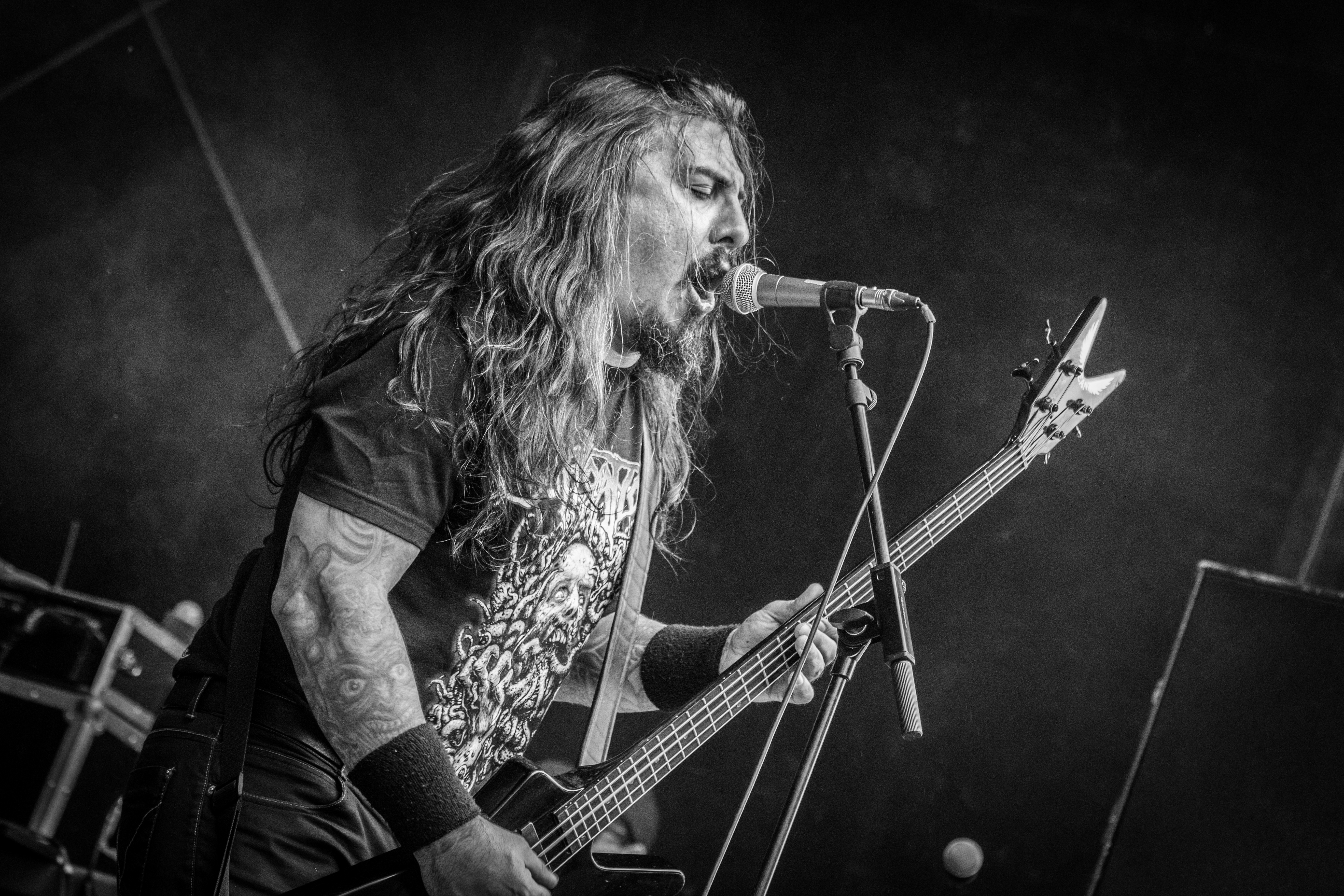 Krisiun live at Turock Open Air 2016